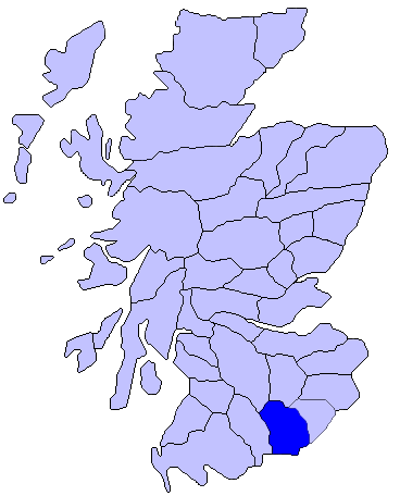 Map of Annadales Historical Location